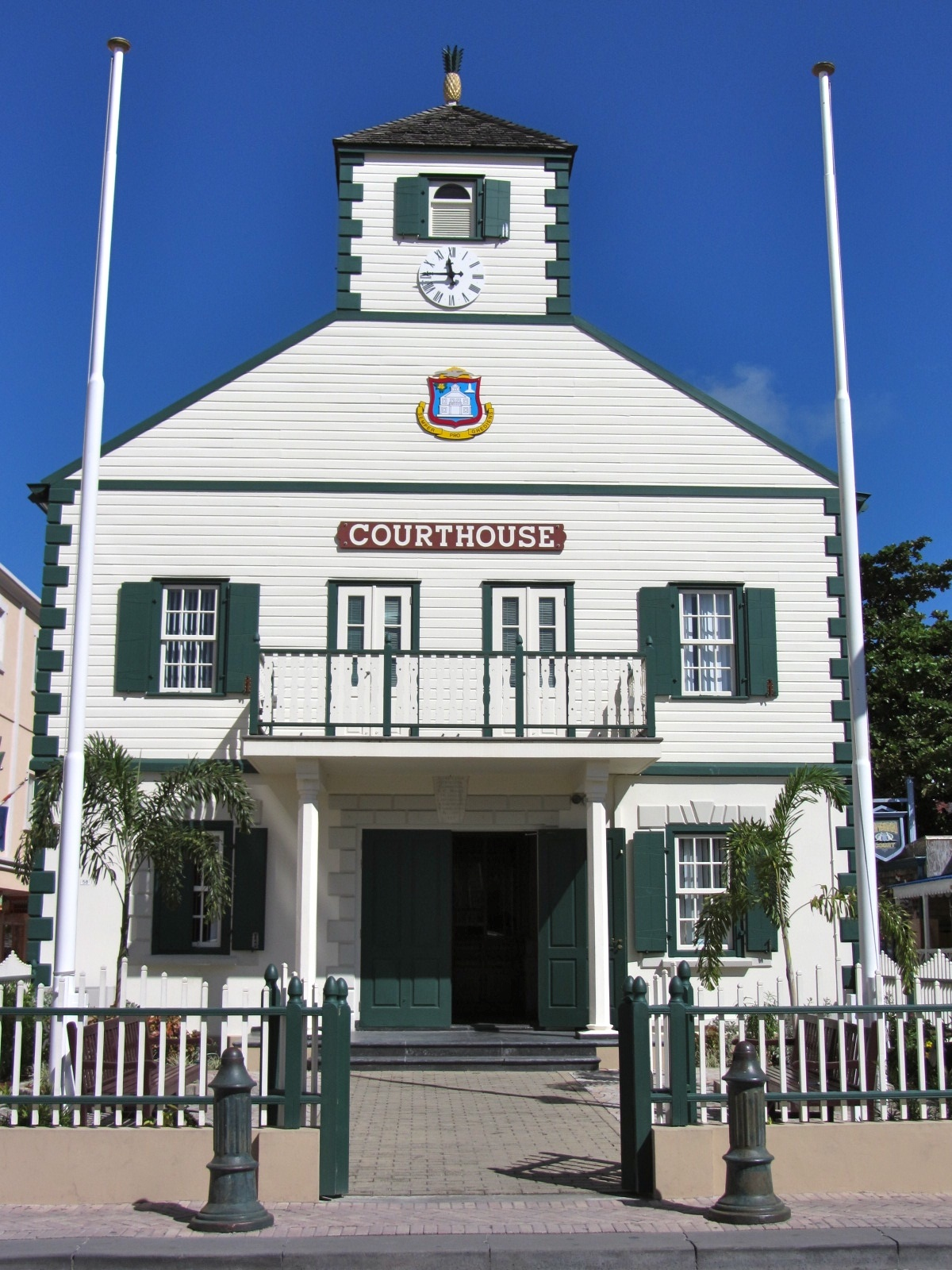 Philipsburg Courthouse